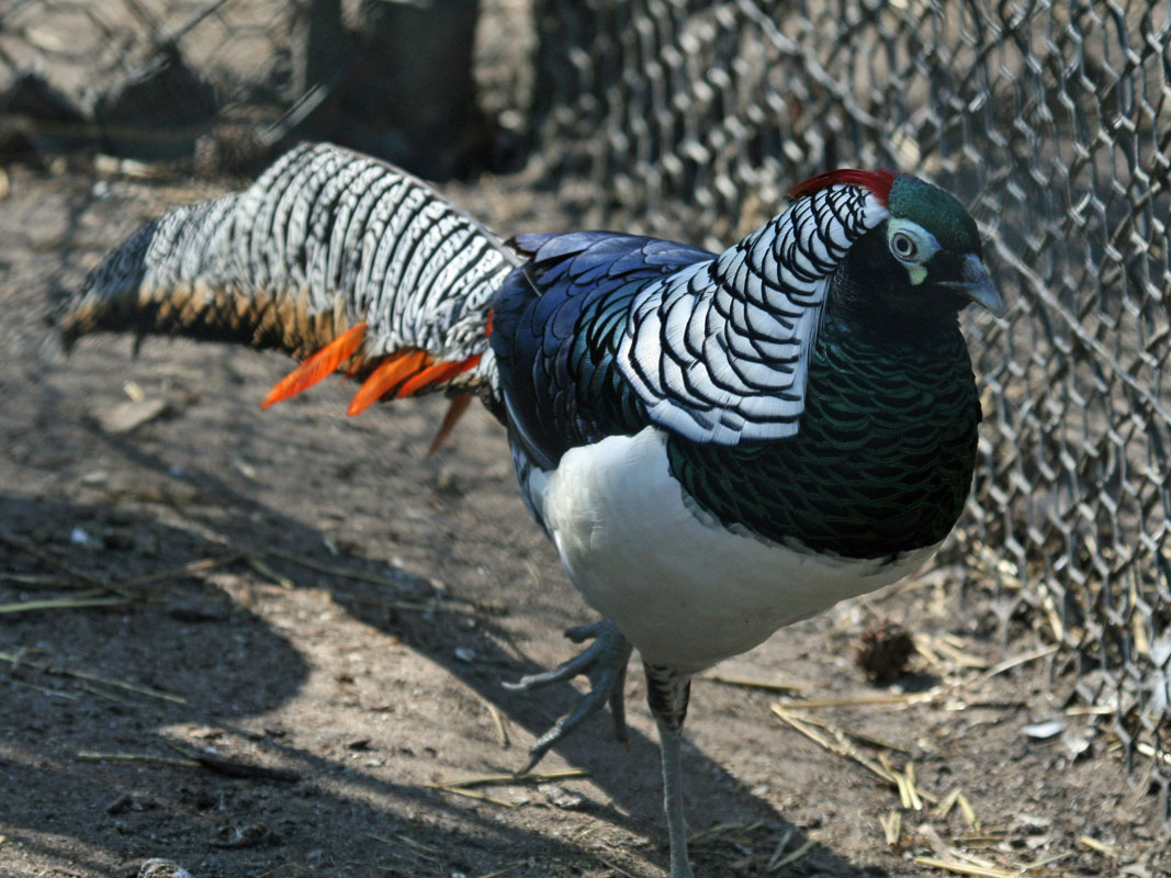 Male Lady Amherst's Pheasant (Chrysolophus amherstiae) - Sylvan Heights Waterfowl Park, North Carolina